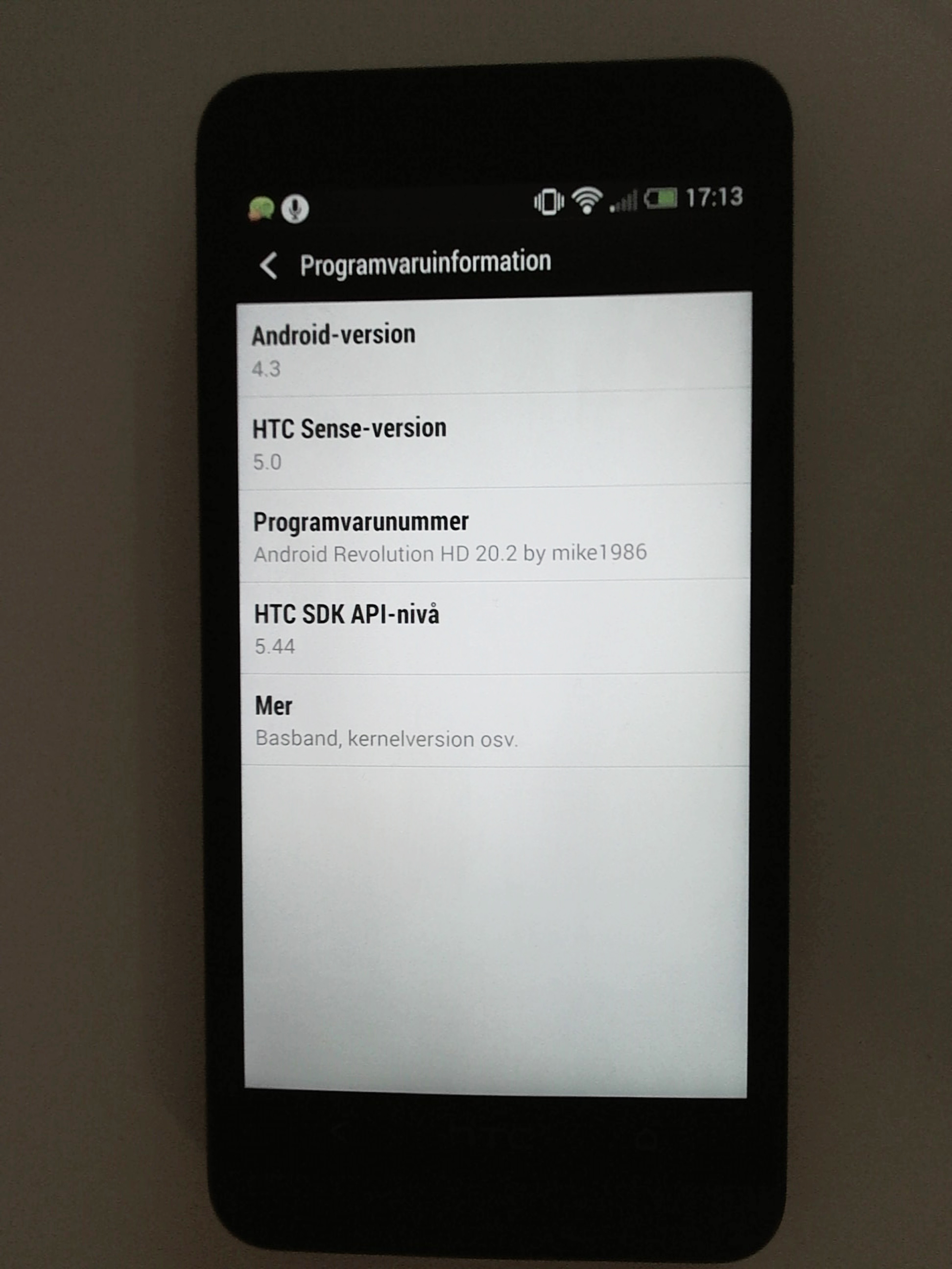 HTC One smartphone running Custom ROM "Android Revolution HD"